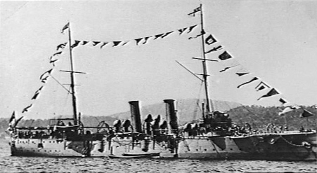 AWM caption : "HOBART, TAS. 1903. STARBOARD SIDE VIEW OF THE CRUISER HMS PHOEBE AT ANCHOR IN THE DERWENT RIVER. THE SHIP IS DRESSED FOR THE HOBART REGATTA. NOTE THE 4.7 INCH GUNS MOUNTED JUST FORWARD OF THE BRIDGE AND IN CASEMATES ON THE BEAM AMIDSHIPS. THE EMBRASURE IN THE HULL JUST ABAFT THE ANCHOR CHAIN IS FOR A 3 POUNDER GUN. NOTE THE LARGE OPENING IN THE HULL AFT FOR HER STARBOARD TORPEDO TUBE."